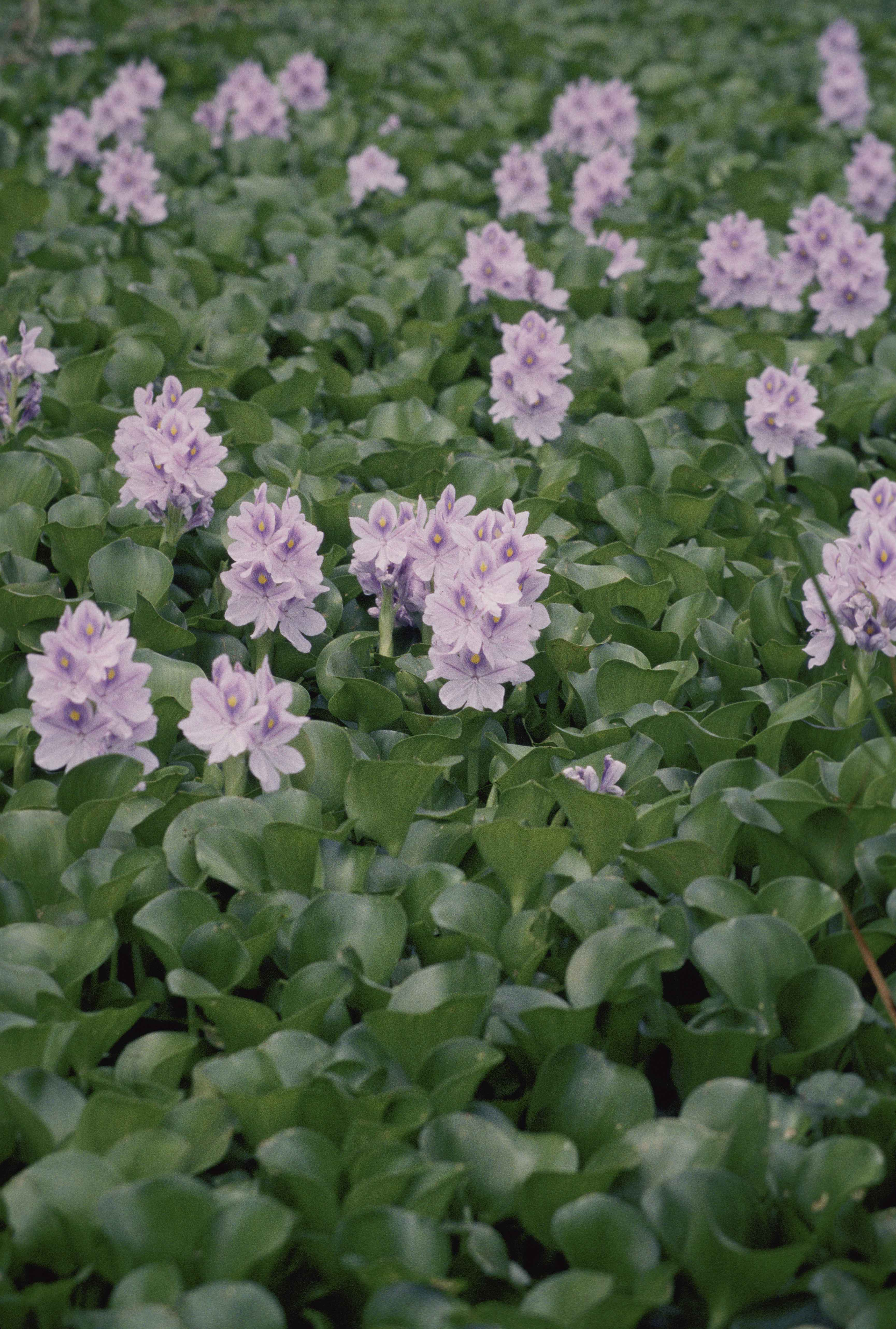 Image title: Aquatic invasive plant water hyacinth eichhornia crassipes in full bloom Image from Public domain images website